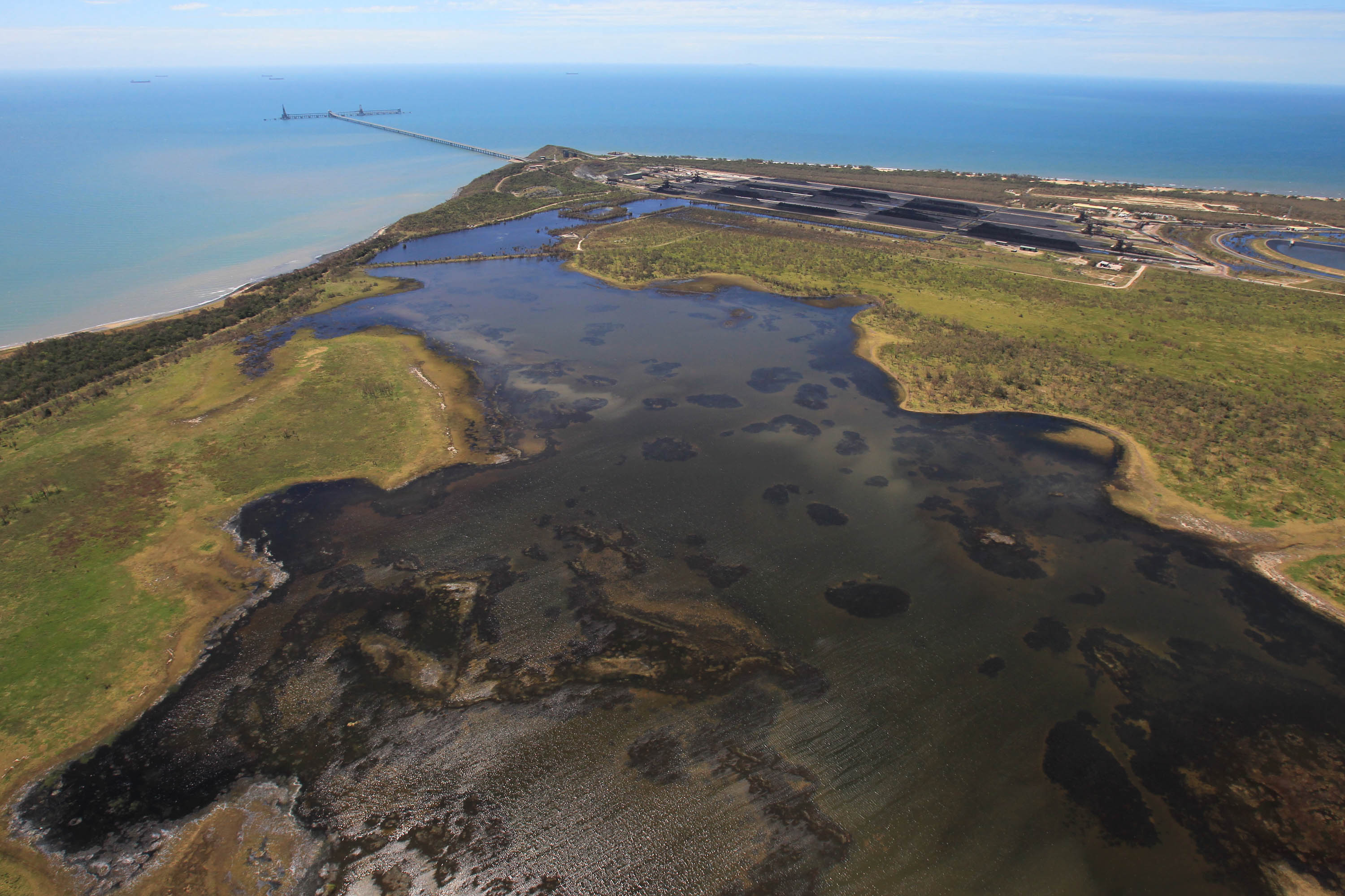 Photograph shows Abbott Point coal loading facility with coal water run off moving North West into the Wetlands .Photograph by Dean Sewell/Oculi.